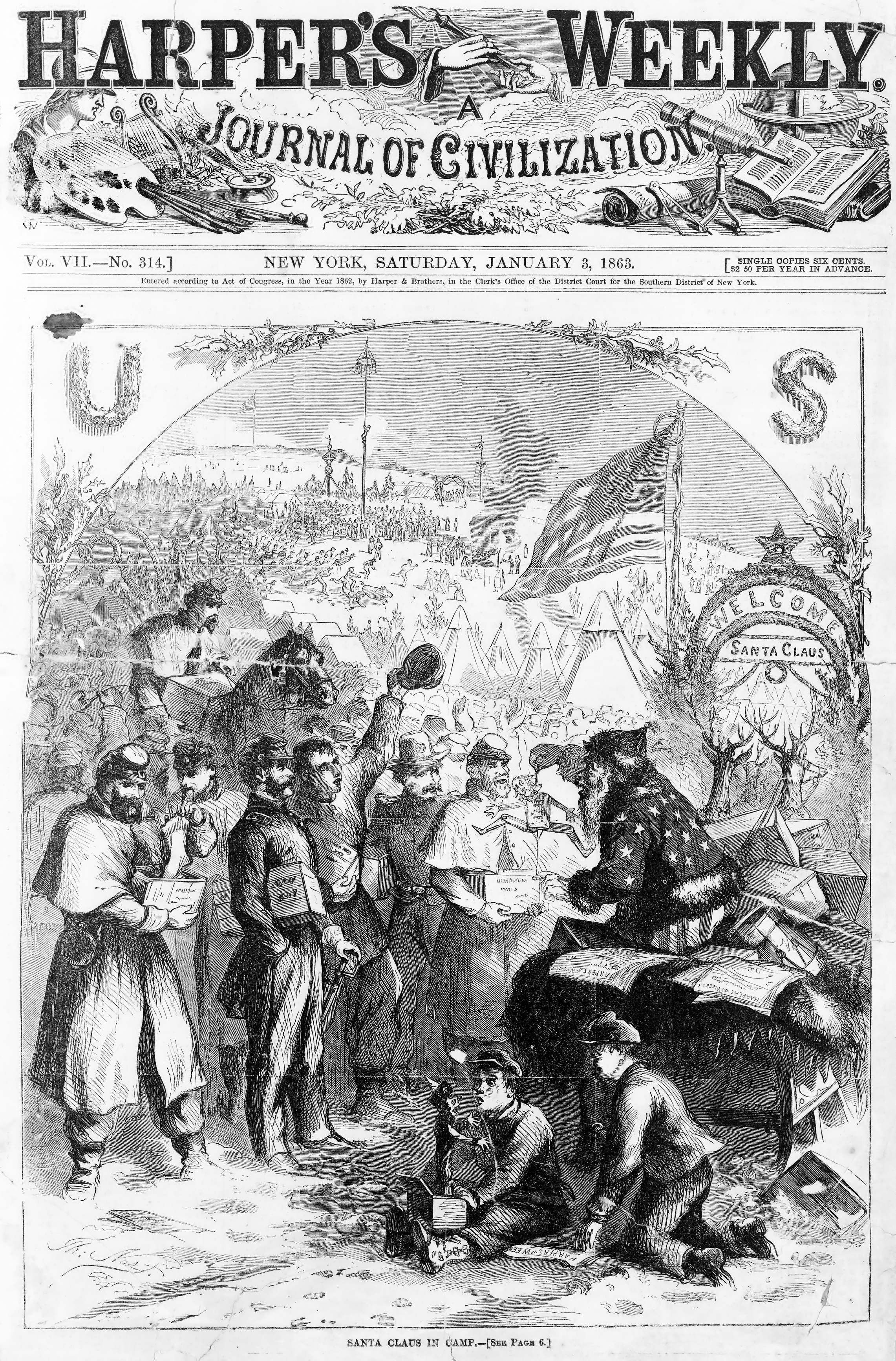 January 3, 1863 cover of Harper's Weekly, one of the first depictions of Santa Claus